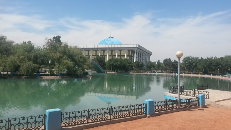 Picture taken by myself, Alisher Navoi Park.